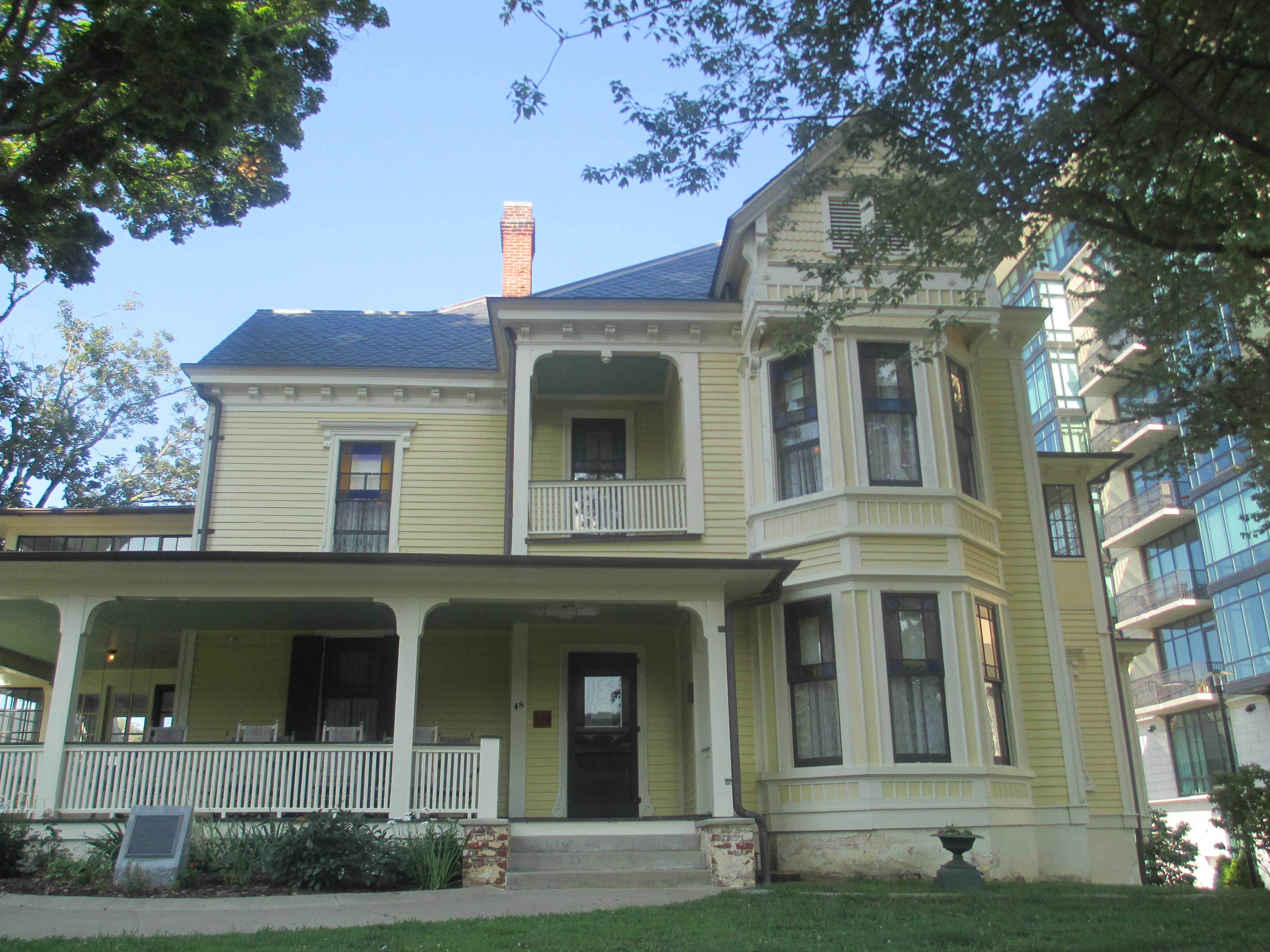 I took photo with Canon camera of Thomas Wolfe House in Asheville, NC.